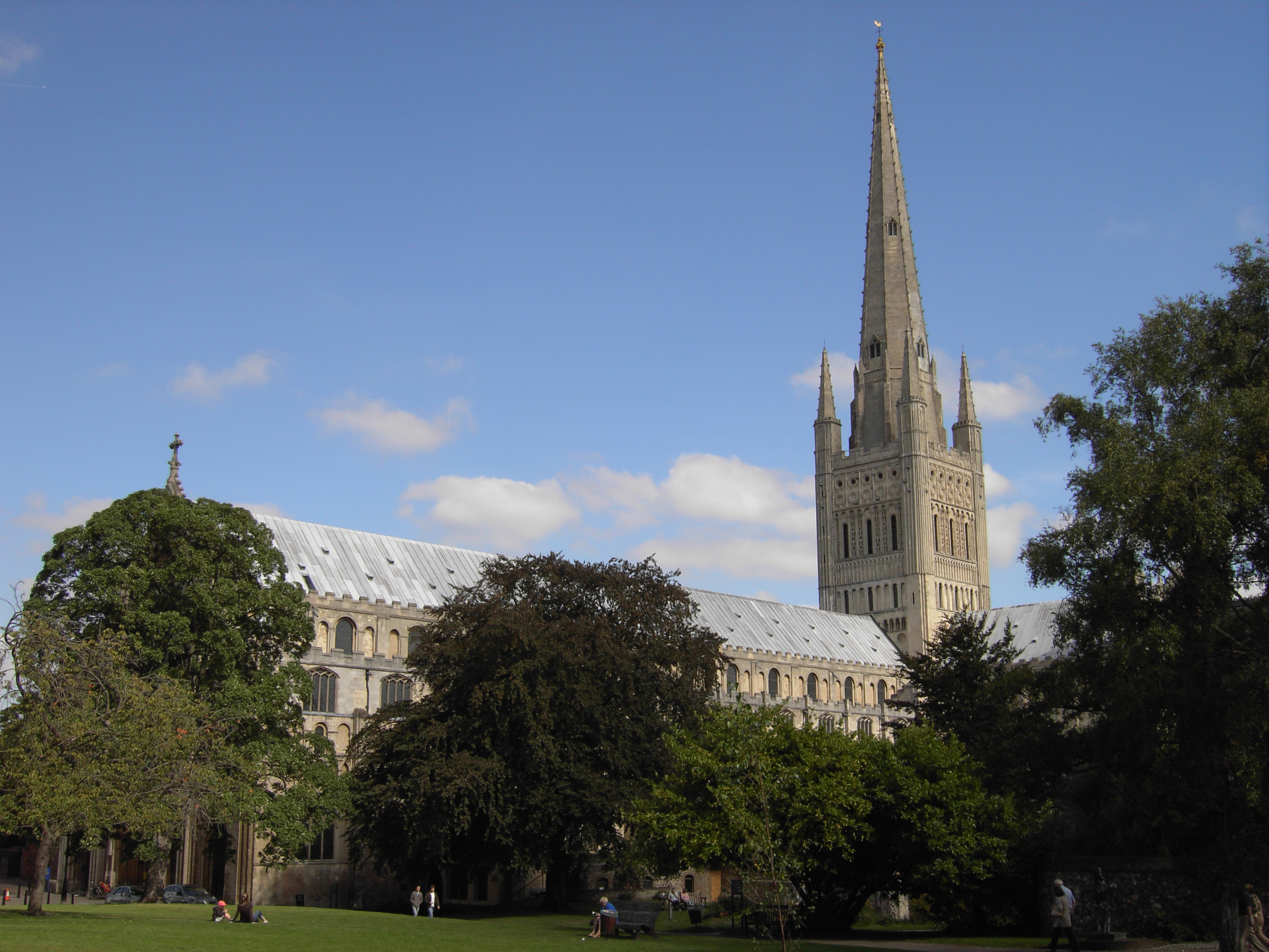 Norwich Cathedral. Taken on the 2006 Sponsored Bike Ride for The Norfolk Churches Trust, 2006-09-09. View across lawns to cathedral and spire.